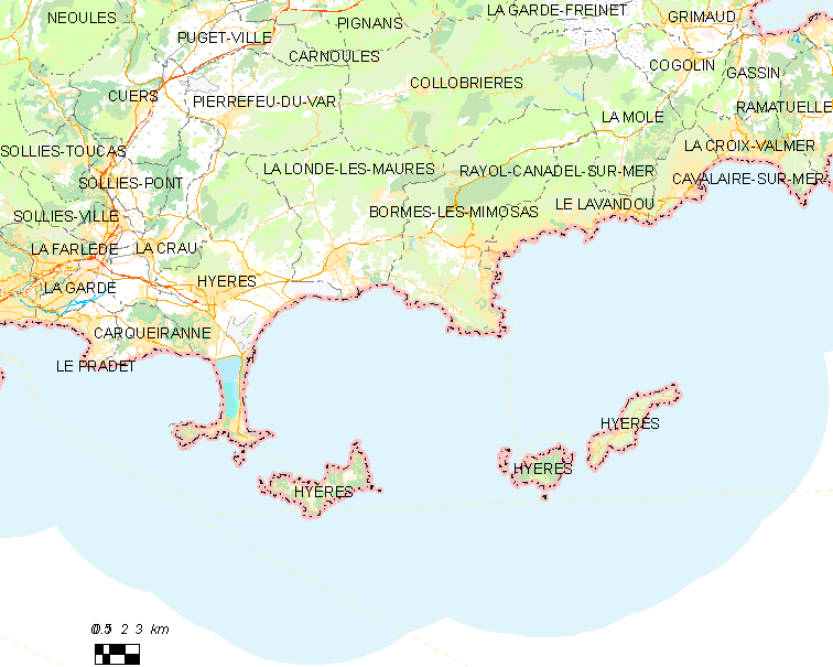 Map of French municipality Hyères